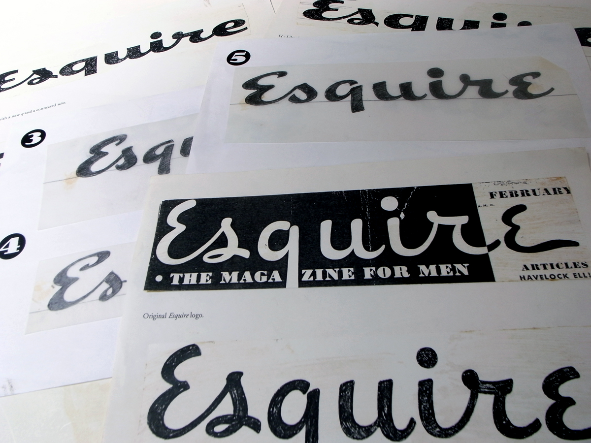 In FontCast’s search for typographic designers with interesting stories to tell we knew we didn't have to go far to find Jim Parkinson — he's just across the water from FontShop San Francisco in Oakland. Jim is a Bay Area native, returning after a short stint at Hallmark in Kansas City to design the iconic logotype for Rolling Stone during its heyday in the early ’70s. That work led to hundreds of other magazine and newspaper nameplates (Newsweek, Billboard, Esquire, LA Times), band logos, and typeface designs over the next four decades. At 69, Jim is still going strong, wielding FontLab and paintbrush to create new works of art. We met him at his home studio to talk about letters and life, from the days of beatniks and hippies to his takes on art school and businessmen (AKA “cigar-smoking twits”).